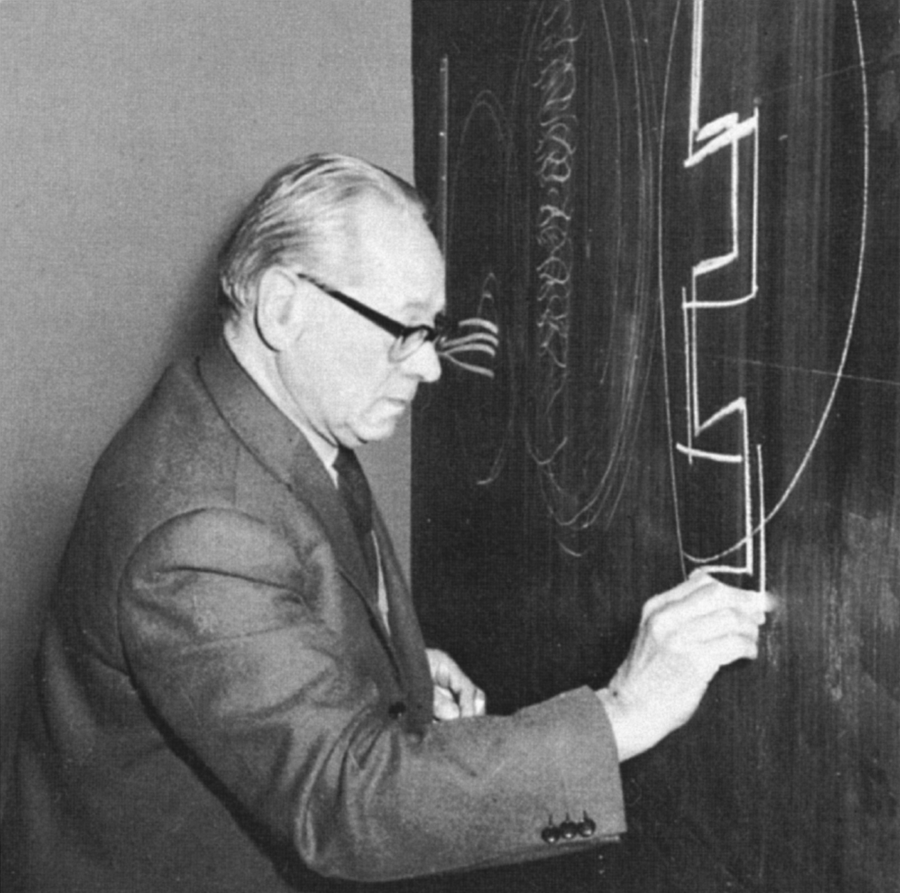 Johannes Itten teaches. 1954